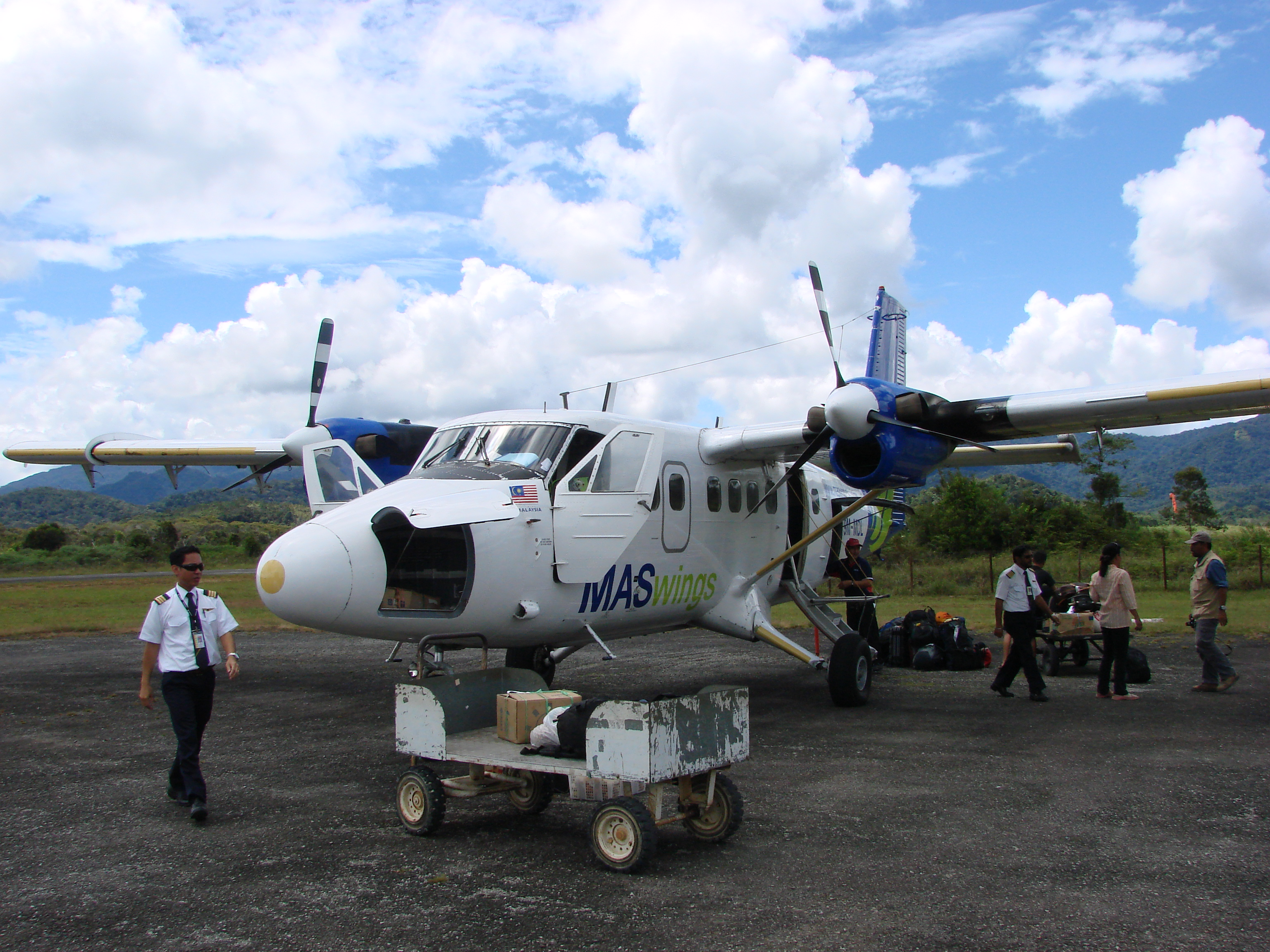 The Twin Otter (19 seats!) I flew out of Bario, Malaysia. It makes the trip to Miri twice daily. There are also Twin Otter flights to one or two other settlements nearby.